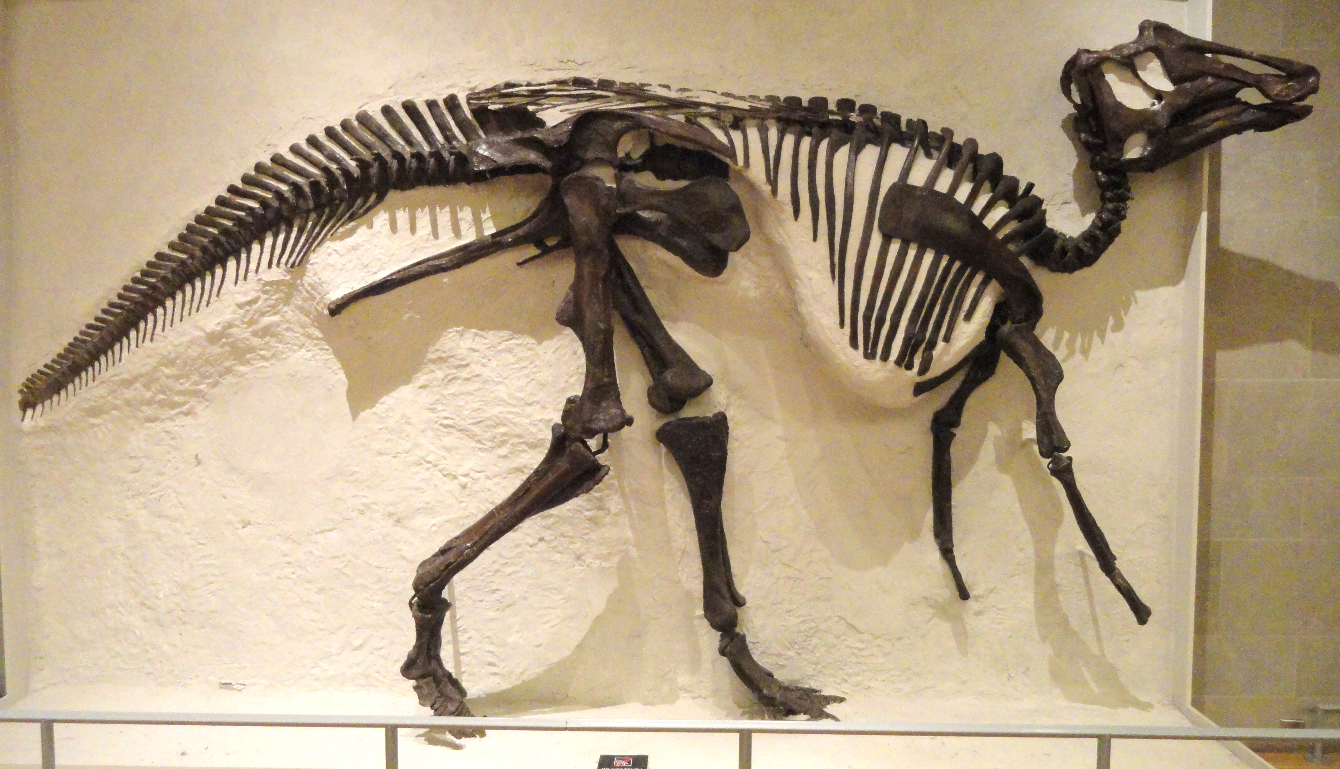 Exhibit in the Royal Ontario Museum, Toronto, Ontario, Canada. This exhibit is old enough so that it is in the public domain, and photography was permitted in the museum. I took this photograph and release it into the public domain.